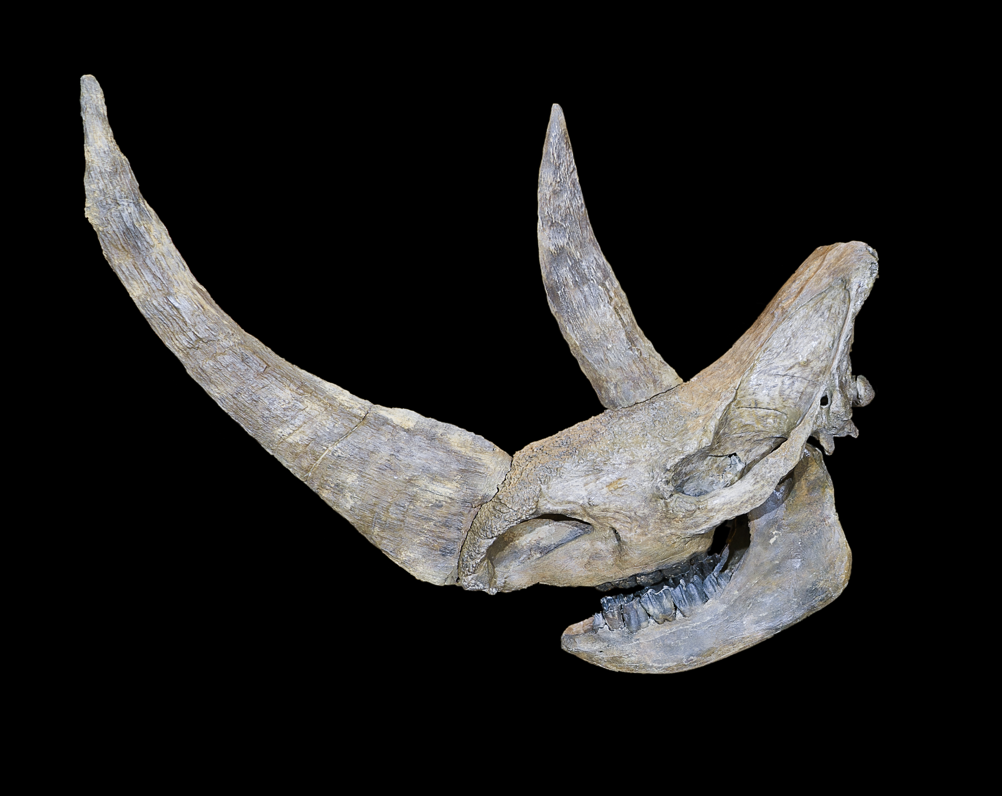 Woolly Rhinoceros (Coelodonta antiquitatis Blumenbach, 1807). Complete skull.